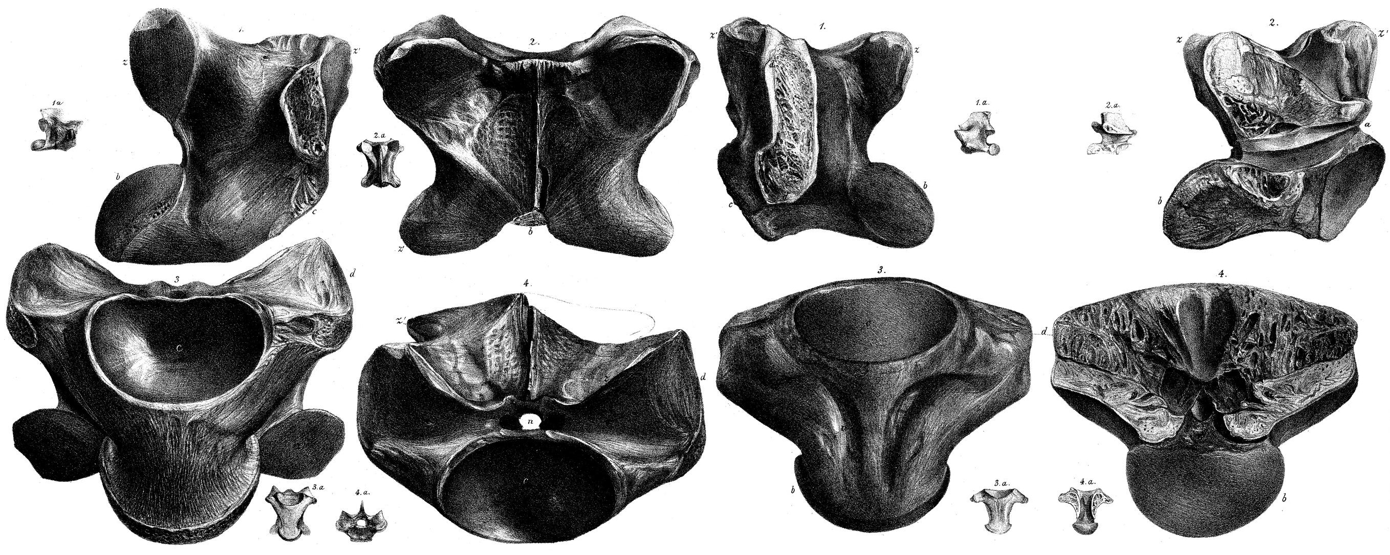 Original dorsal and cervical vertebrae of Megalania, compared with those of Hydrosaurus.